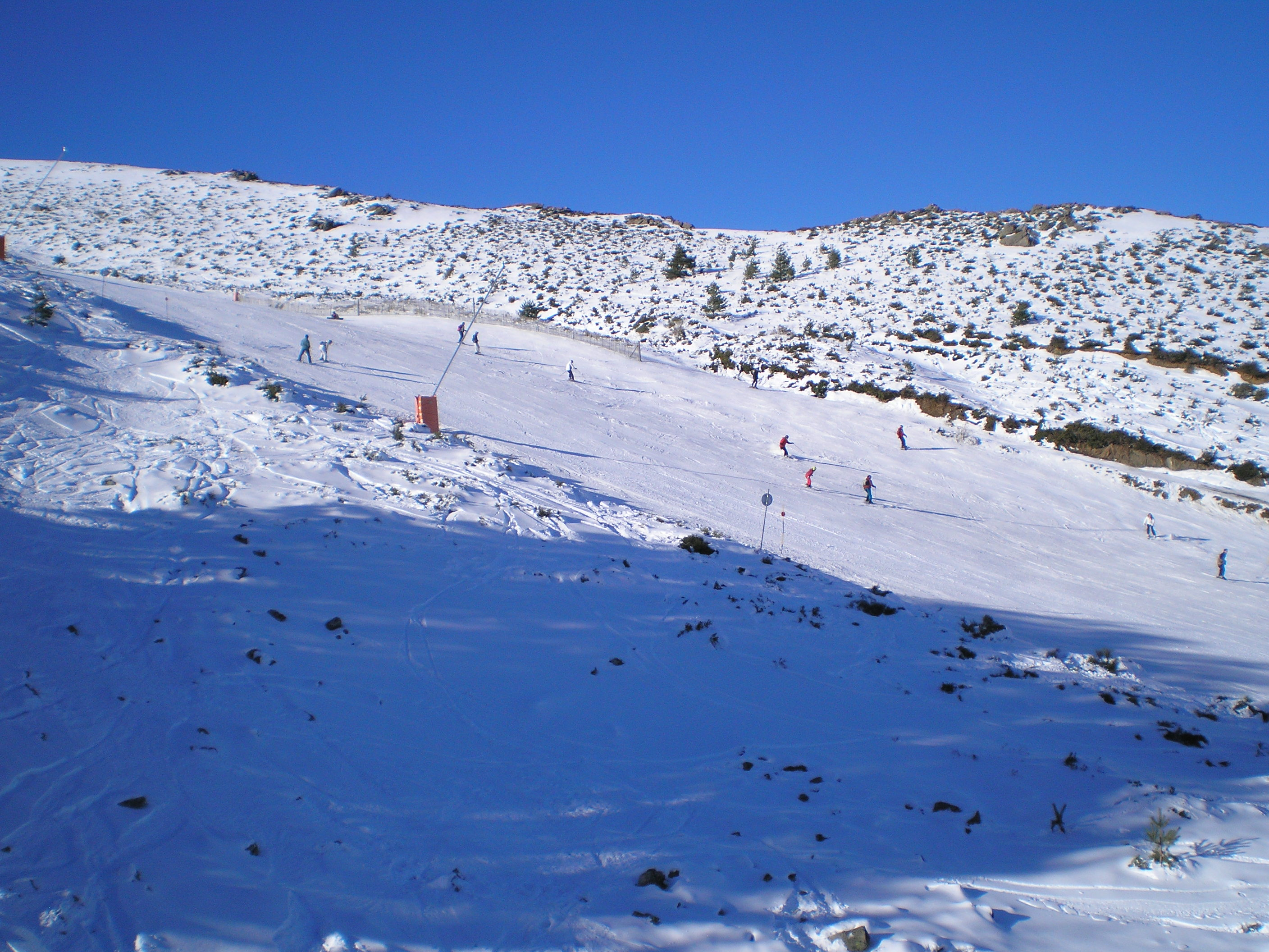 Ski Resort of La Pinilla, Segovia, Spain. "Testeros" slope.